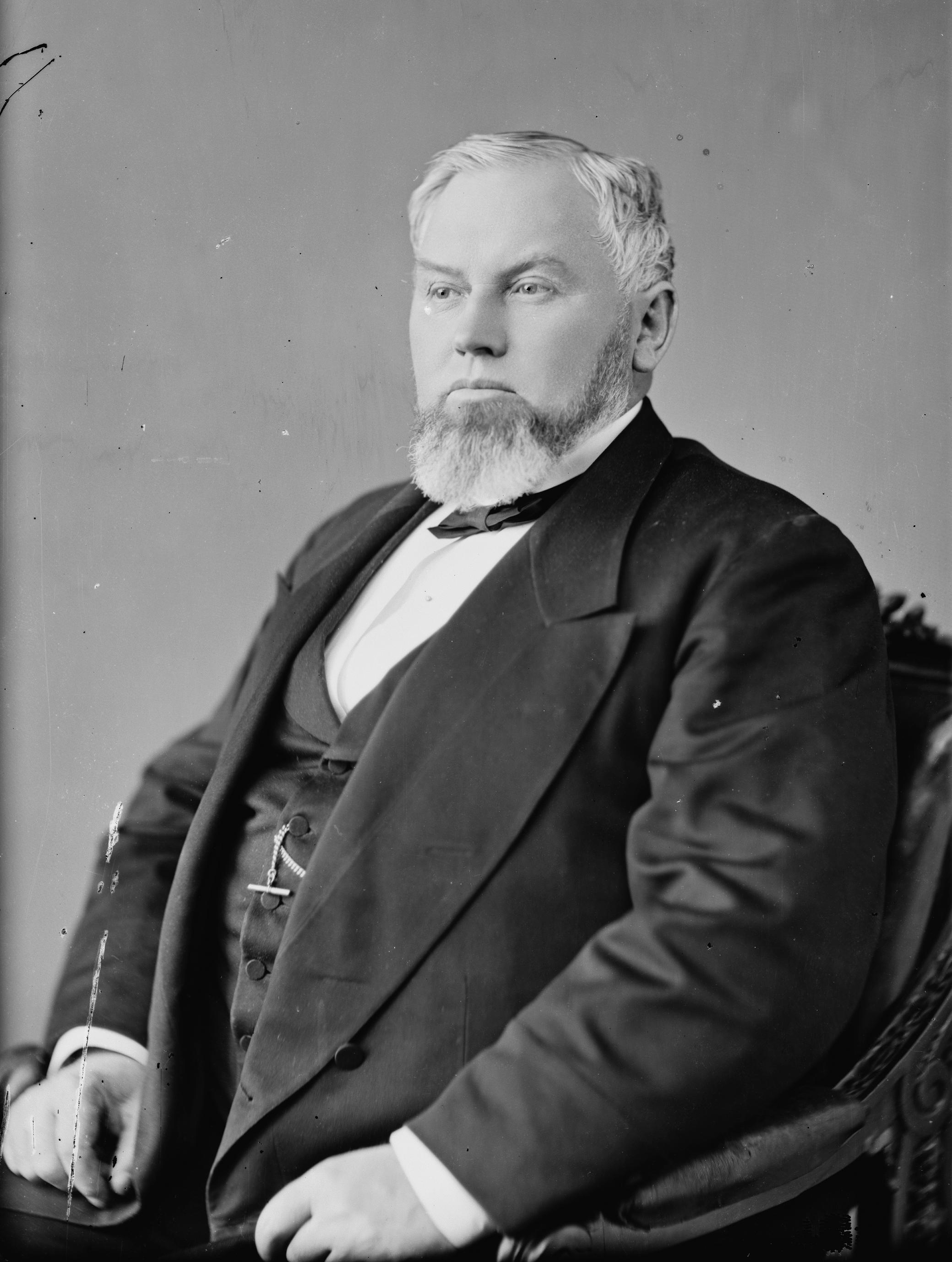 Charles Clayton. Library of Congress description: "Clayton, Hon. Charles of Cal."